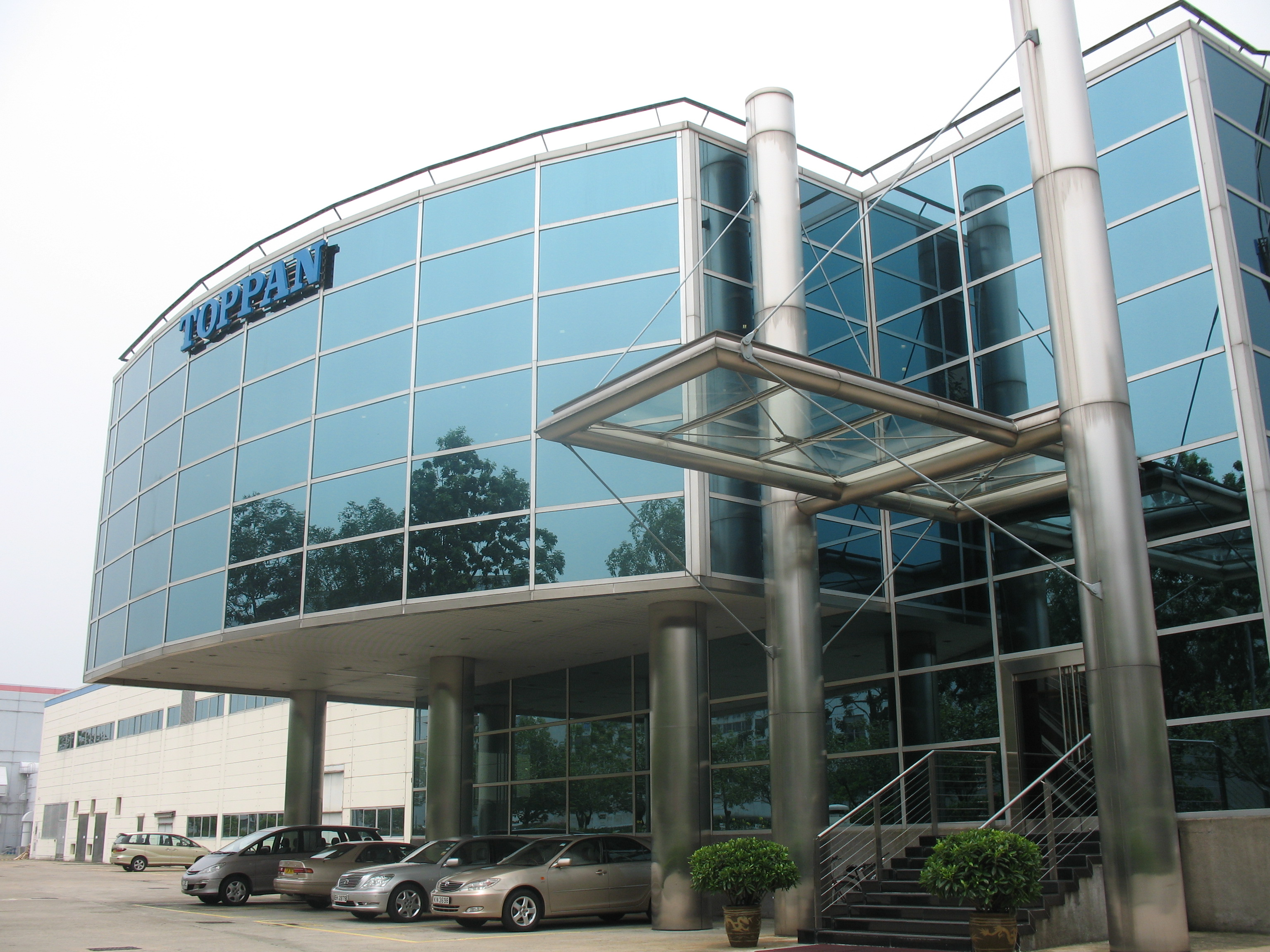 凸版印刷（香港）有限公司 Toppan Printing Company, (HK) Limited